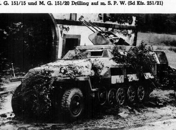 SPW Halftrack Sd.Kfz 251/21 flak drilling, with MG 151/15 or MG 151/20